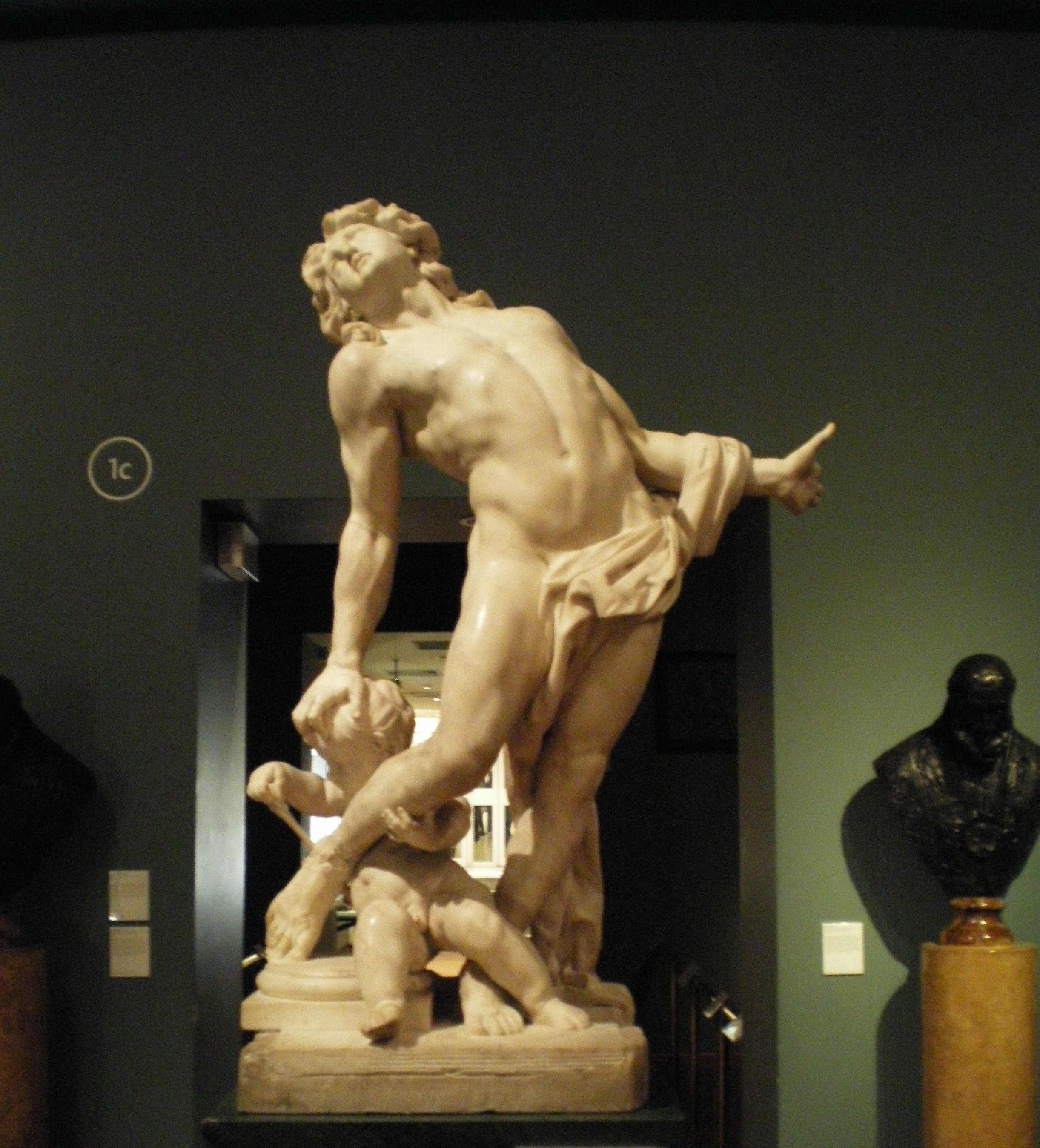 Dying Achilles Marble Christophe Veyrier (1637-1690) Signed and dated 1683 France The Greek hero Achilles is shown dying from an arrow wound in his heel, the only part of his body which was vulnerable to injury; the putto at his feet is trying to remove the arrow. Veyrier worked in France and Italy, and was a pupil of Pierre Puget. He sculpted this figure at the same time as he was commencing work on one of his most important commissions, the decoration of the Chapel of Corpus Domini in the Cathedral of Toulon. Purchased with fund of the John Webb Trust. Collection ID: A.20:1-1945 This photo was taken as part of Britain Loves Wikipedia in February 2010 by art_traveller.